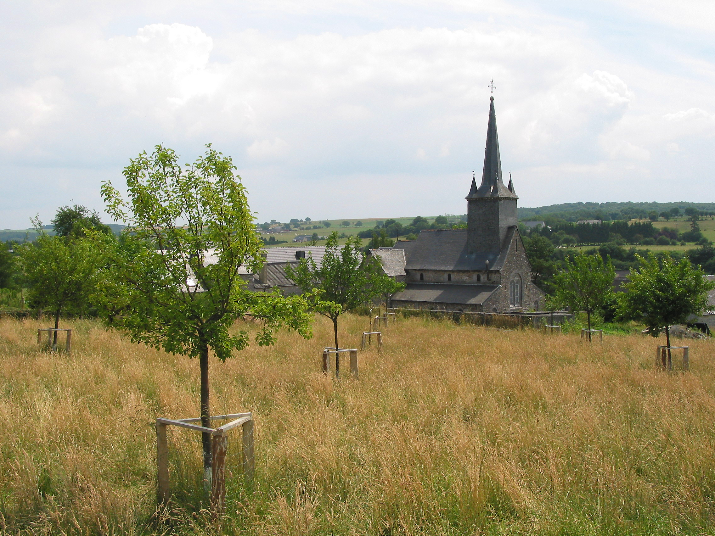 Chardeneux (Belgium), Holy Virgin Nativity chapel (XI - XIIth centuries). Walon: Tchaurdèneû (Bèljike), tchapèle dol Nativitè dol Sinte Viêrje (XI - XIIin.me sièkes).